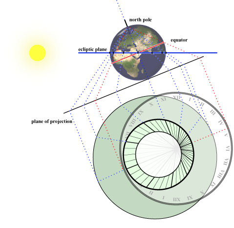 Original summary: "i drew this using Illustrator to illustrate the stereographic projection used by astronomical clocks. This projection is from the North pole, whereas on astrolabes they usually used the South pole".